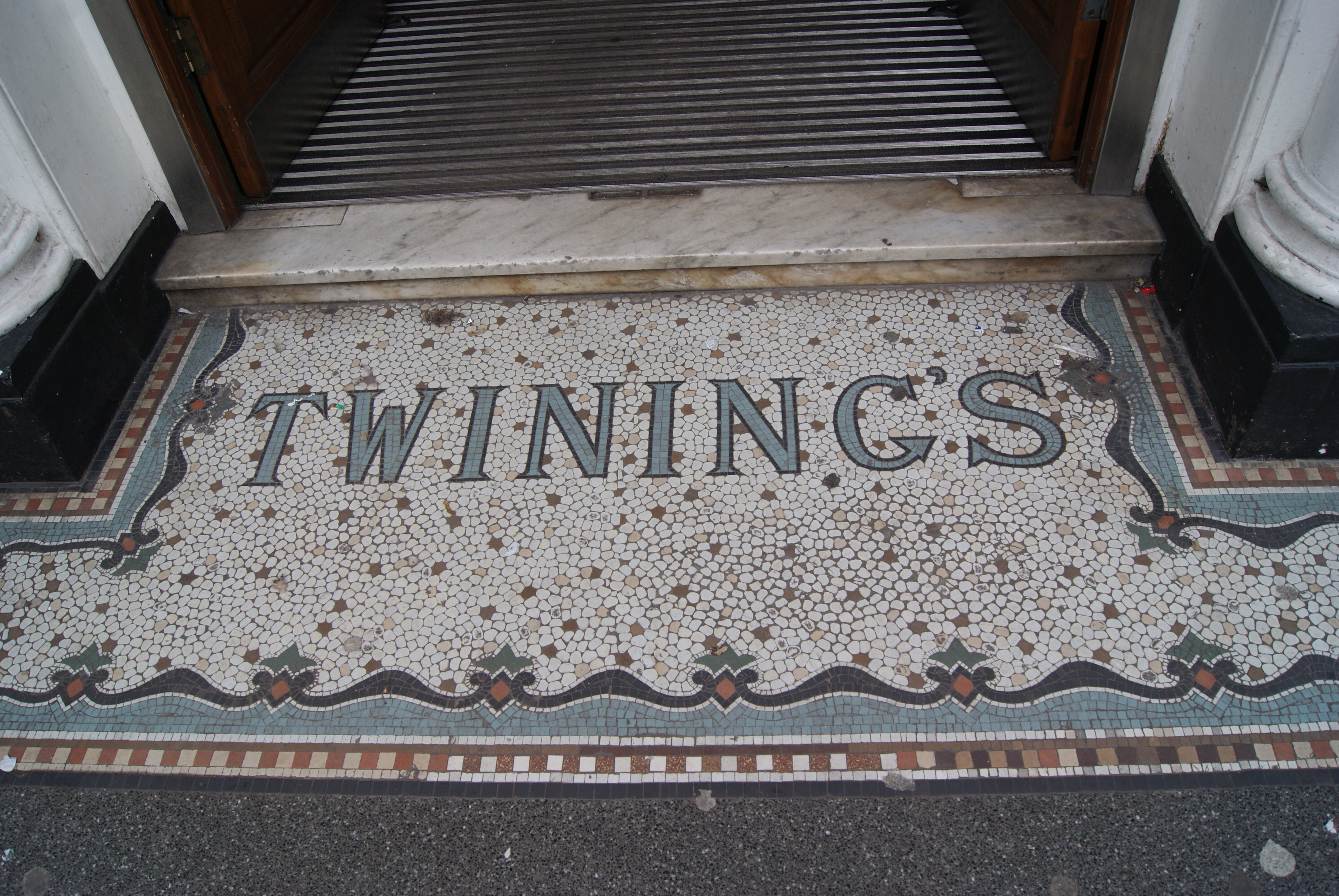 A mosaic at the doorstep of the Twinings Strand Heritage Shop in London, England, UK.